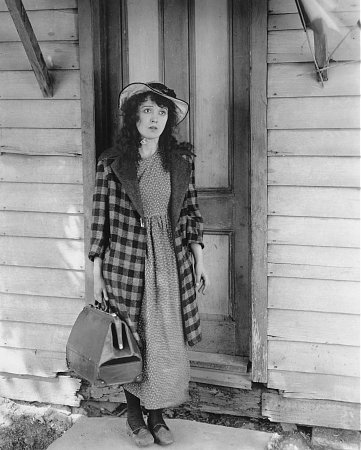 Actress Mabel Normand. Publicity still for 1918 film Peck's Bad Girl.